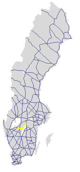 Map of Swedish riksväg (road) 49